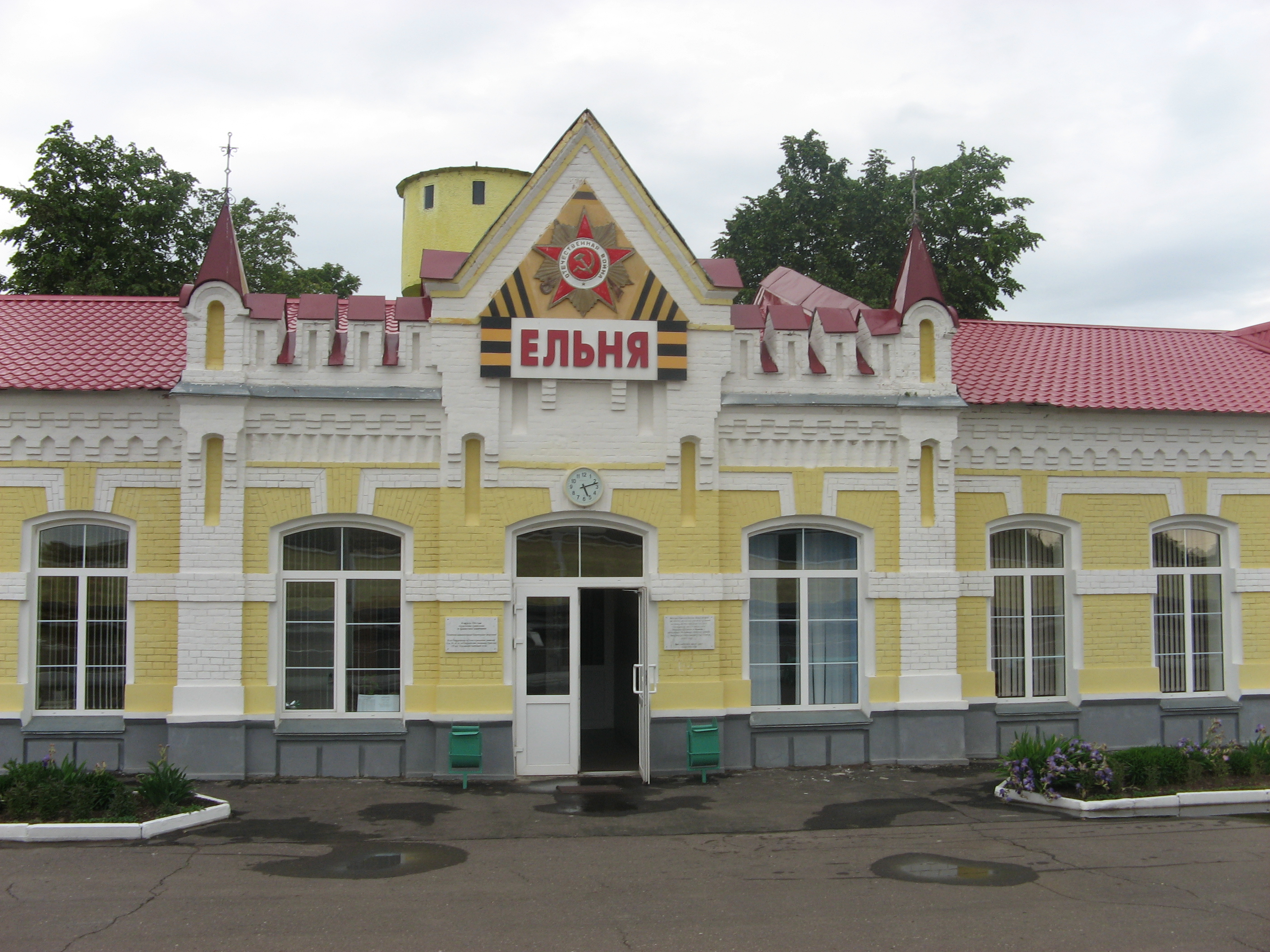 Жд вокзал в Ельне